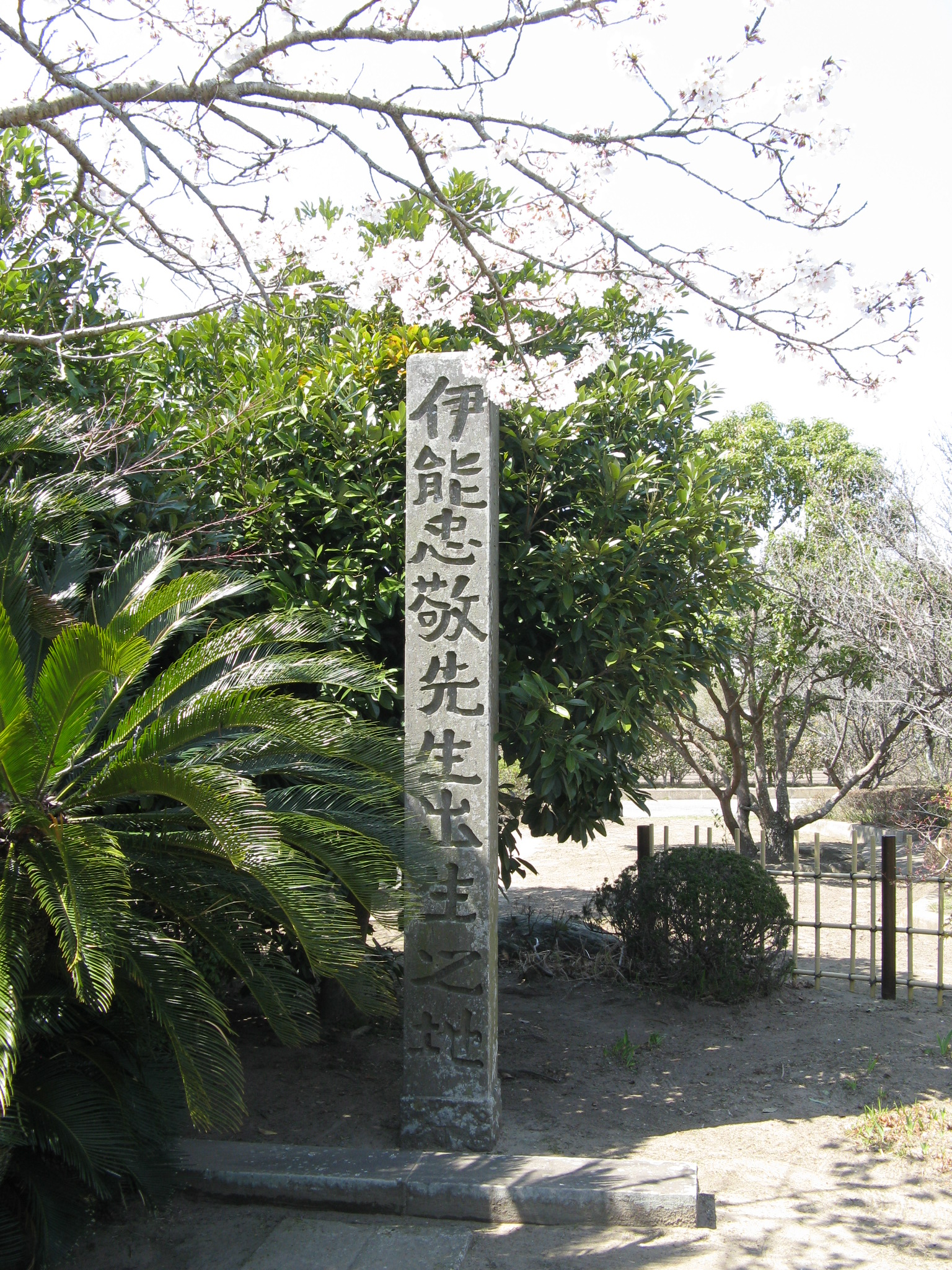 Birthplace of Ino Tadataka in Kujukuri Town, Chiba Prefecture, Japan